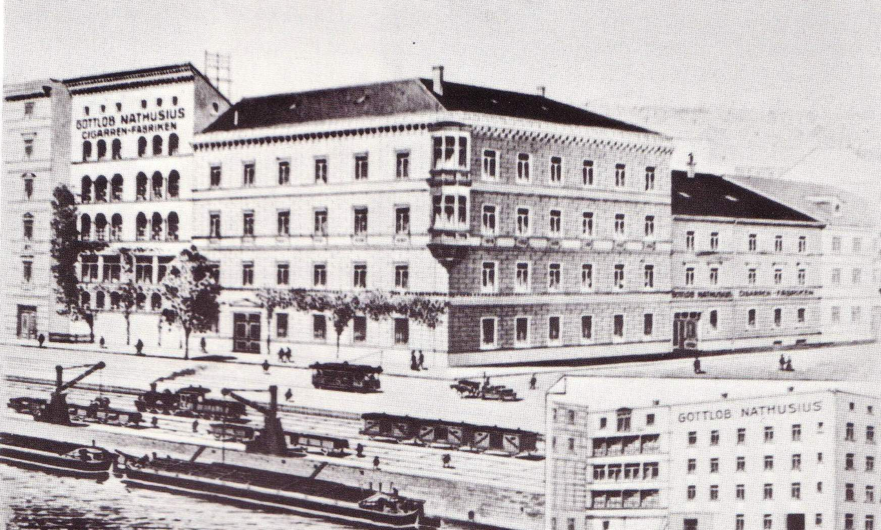 The new headquarters of tobacco factory Gottlob Nathusius at Elbe river in Magdeburg, approx 1907.